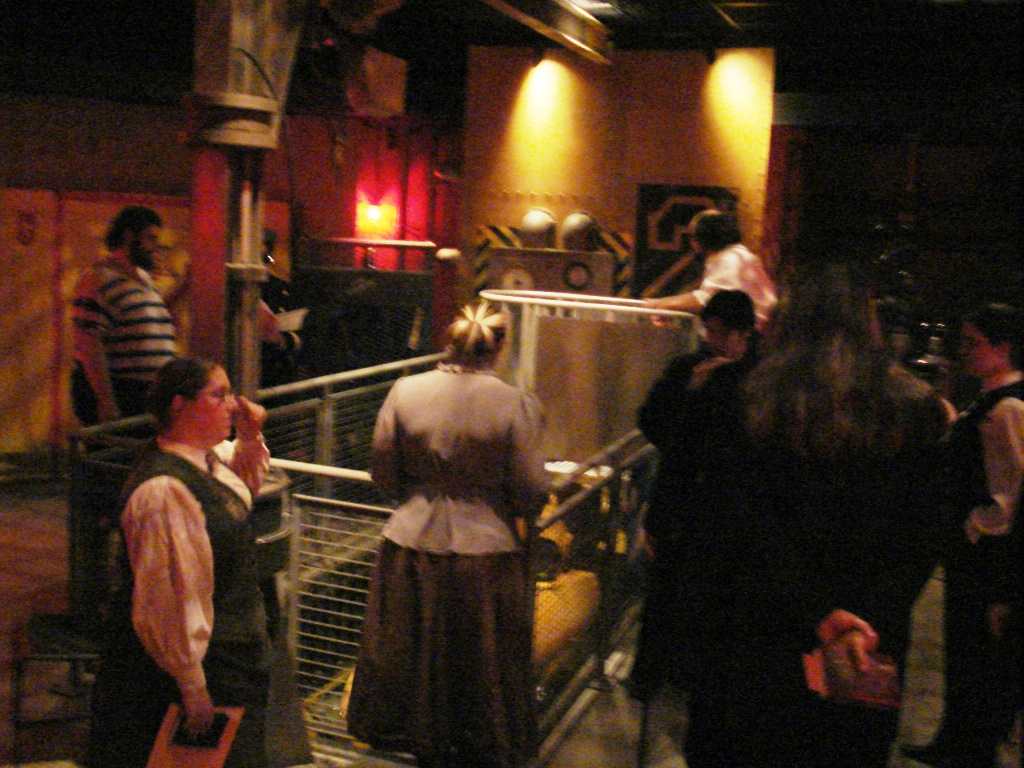 "Photograph of the live action role-playing game The Secret of Atlantis. The game ran September 9, 2007 at COSI Columbus using the "Ocean" rooms. Using such a well decorated location is unusually complex for a LARP in the United States. This is the area decorated to look like a submarine and represented a steampunk submarine."